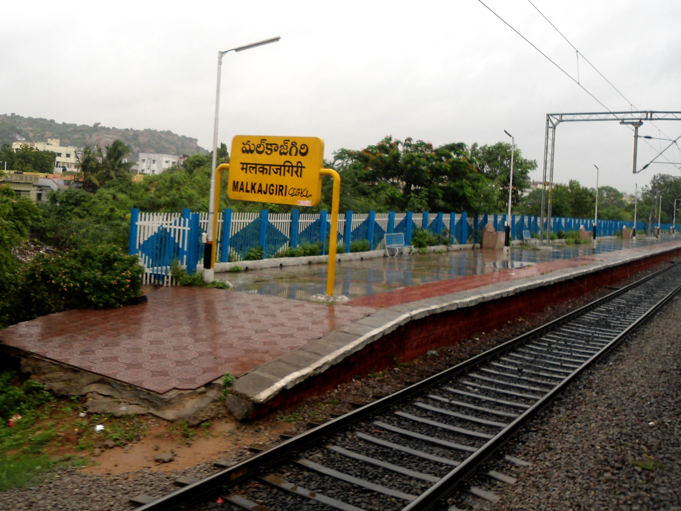 Malkajgiri Railway Station view of PF number 3, Secunderabad